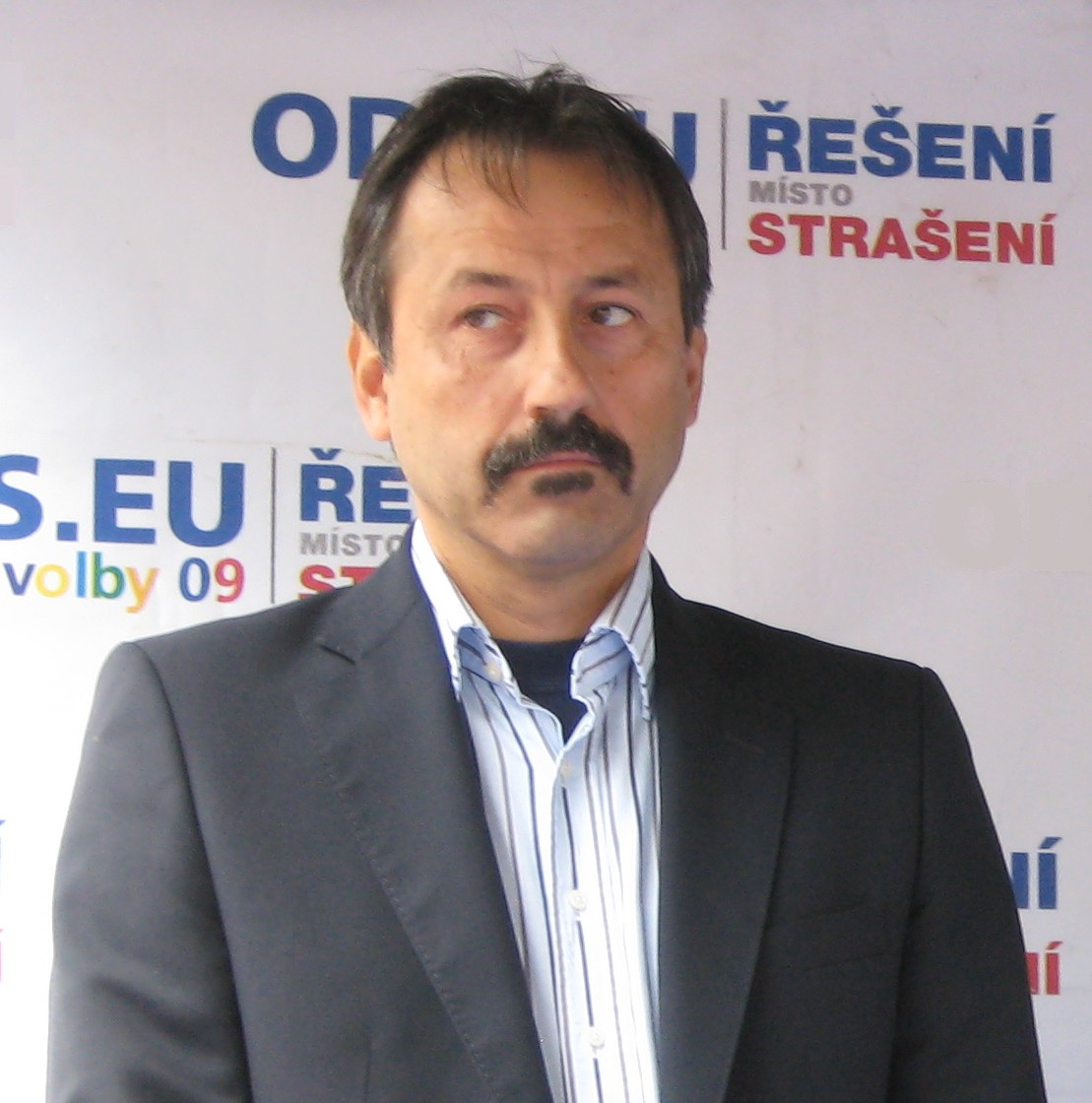 Walter Bartos, Czech politician